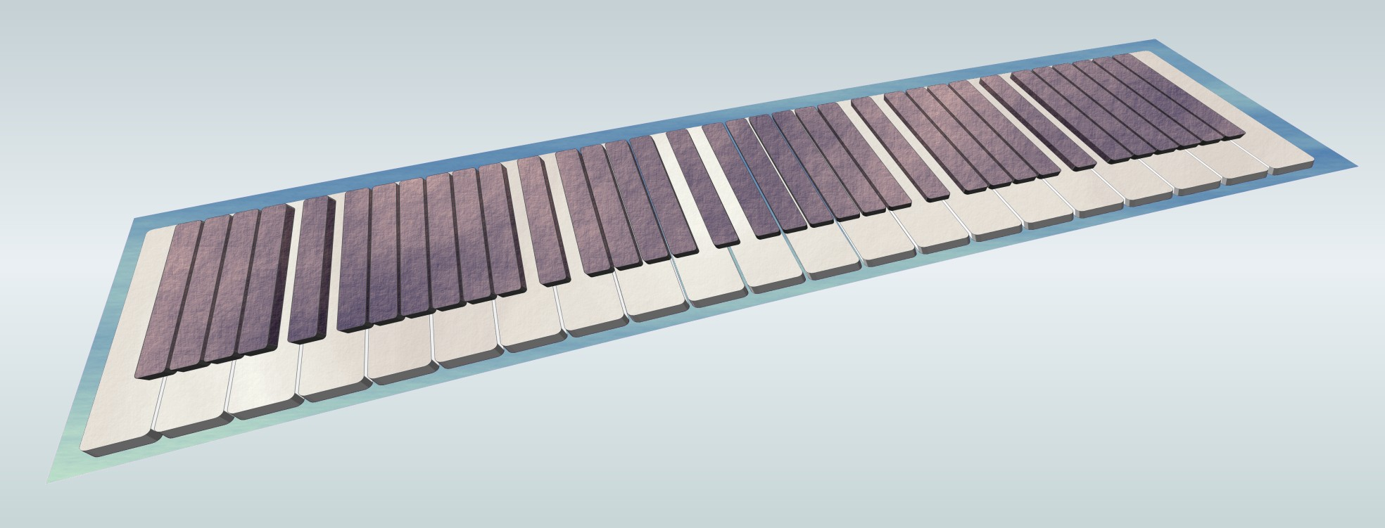 Imaginary microtonal keyboard dividing the octave into 19 microtones